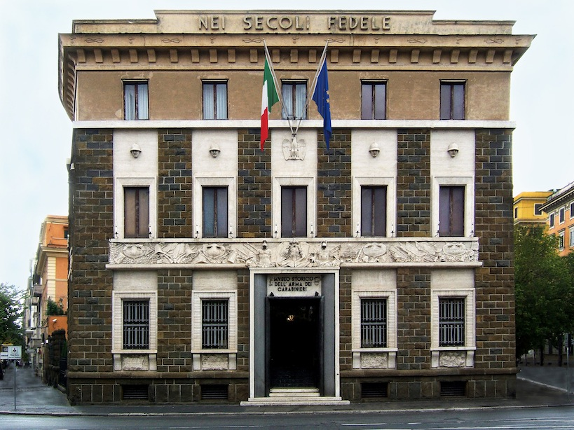 Historical Museum of the Carabinieri Corps